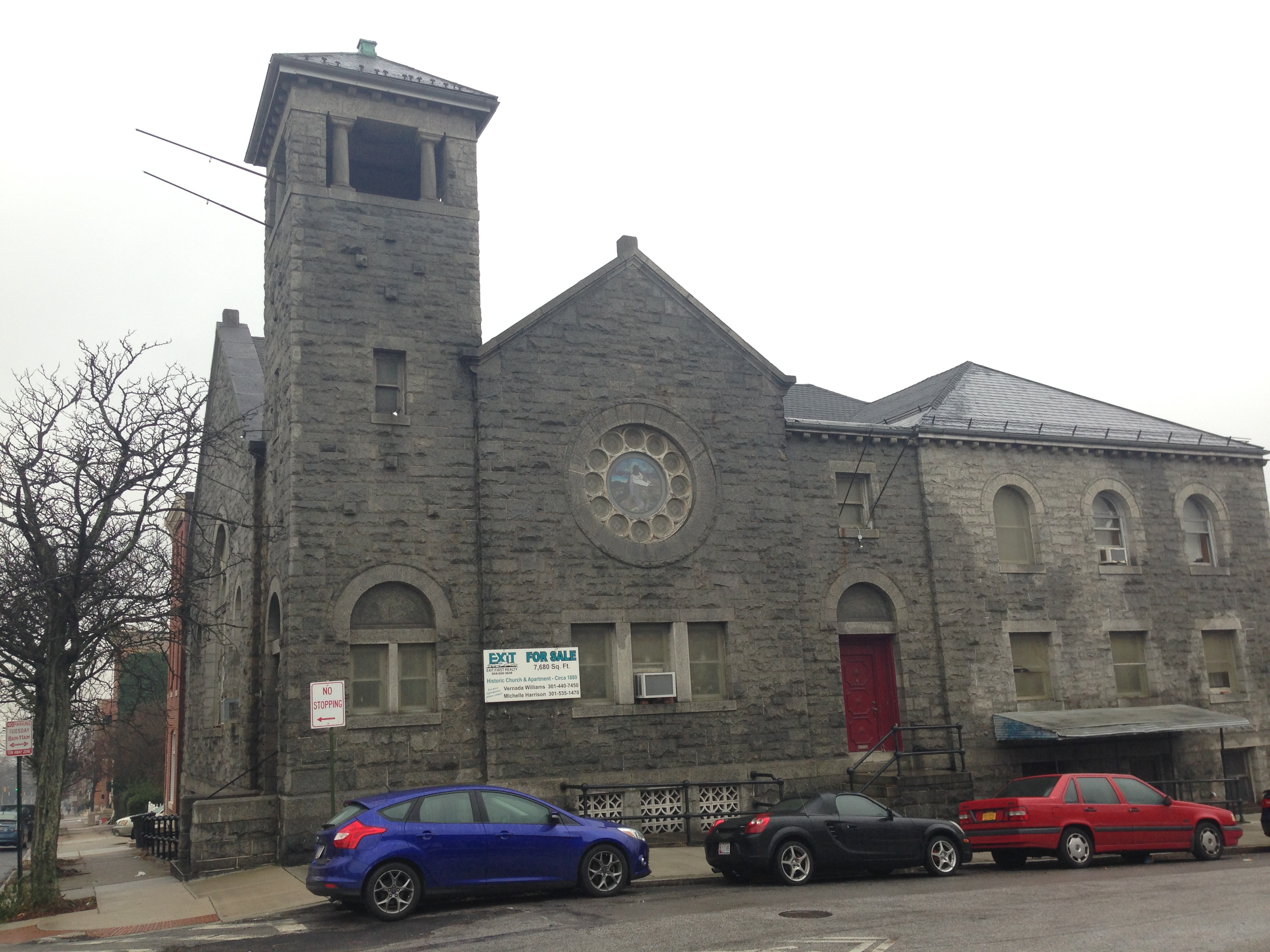 Norwegian Seamen's Church, Upper Fells Point, Baltimore, Maryland.